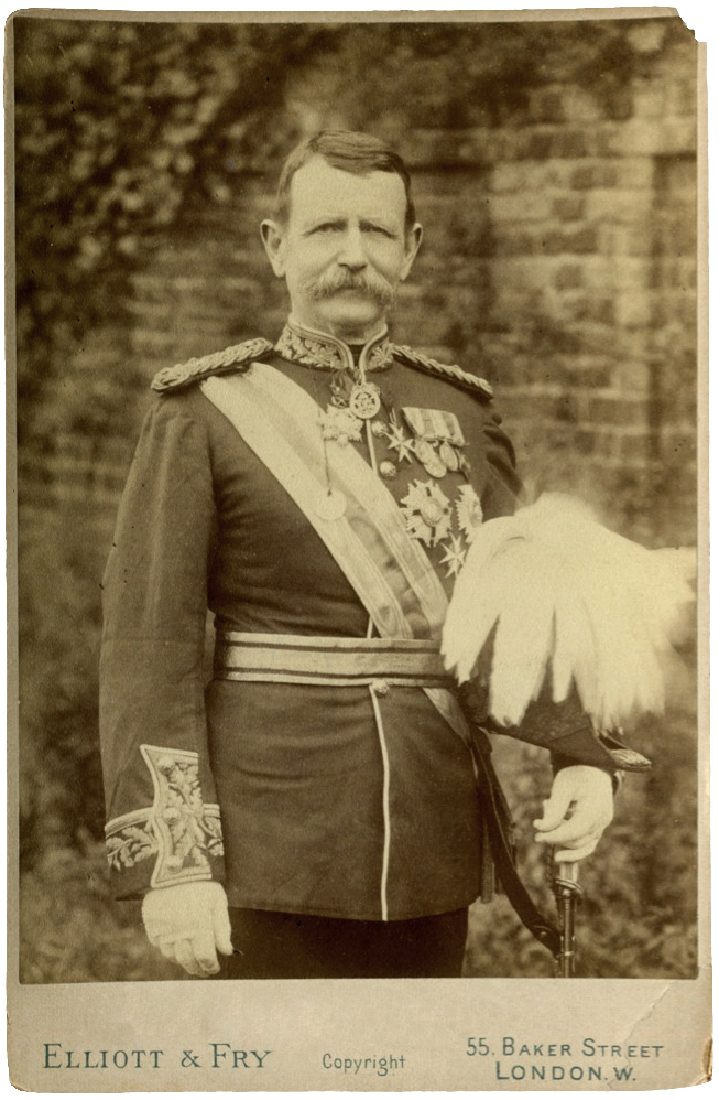 Cabinet Cart photo of Charles Warren (1840-1927)